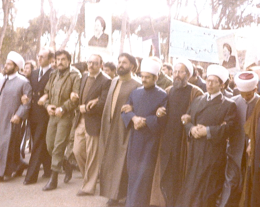 صورة للشيخ الطهراني يتوسط علماء سنّة خلال مظاهرة أيام الثورة الإسلامية الإيرانية.